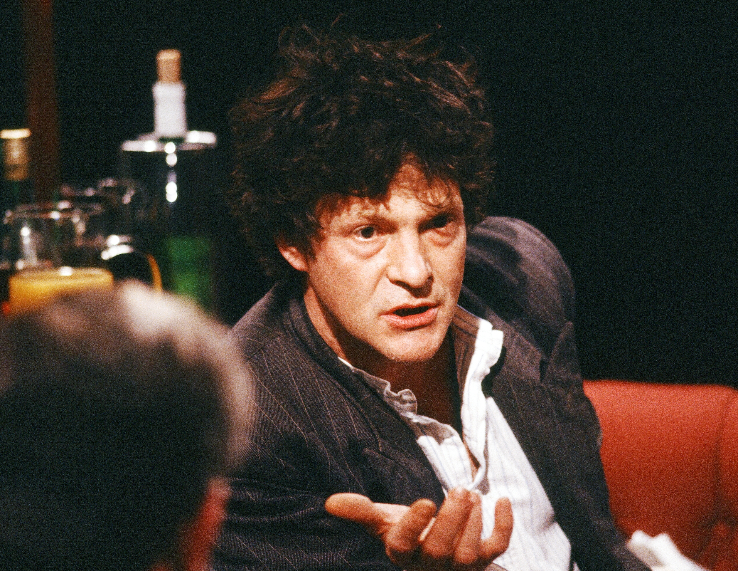 Heathcote Williams appearing on After Dark on 30 July 1988. Other guests included Petra Kelly, James Lovelock and C. W. Nicol. More here.